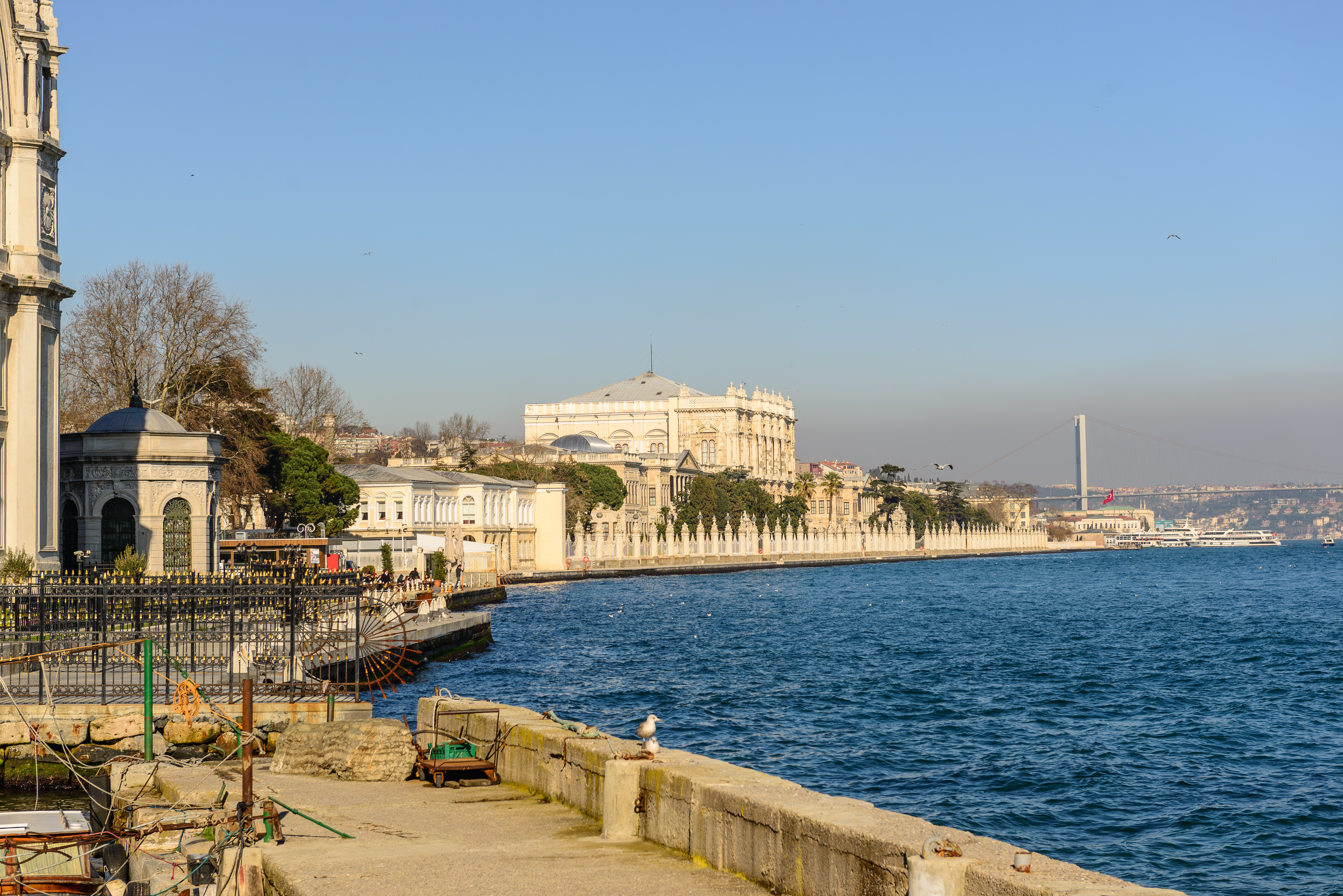 Dolmabahçe Palace and Beşiktaş coastline in Istanbul. To the left, Dolmabahçe mosque.